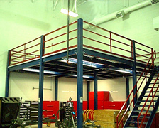 Structural steel industrial mezzanine